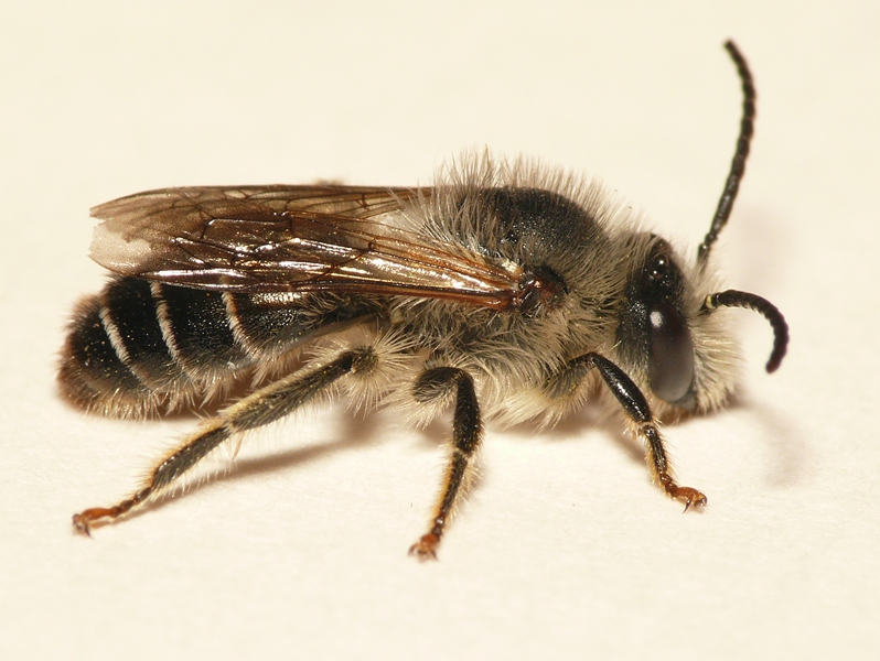 Melitta leporina, male. Location: Rhenen - Blauwe Kamer (The Netherlands)